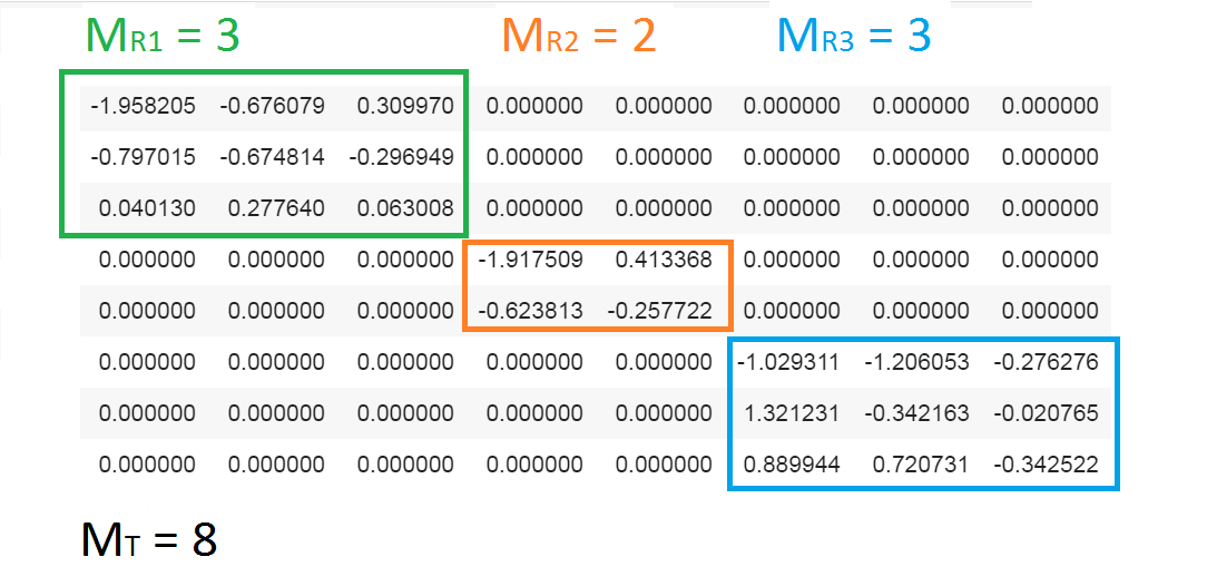 The explanation is available via the following link. Developed according to [1].